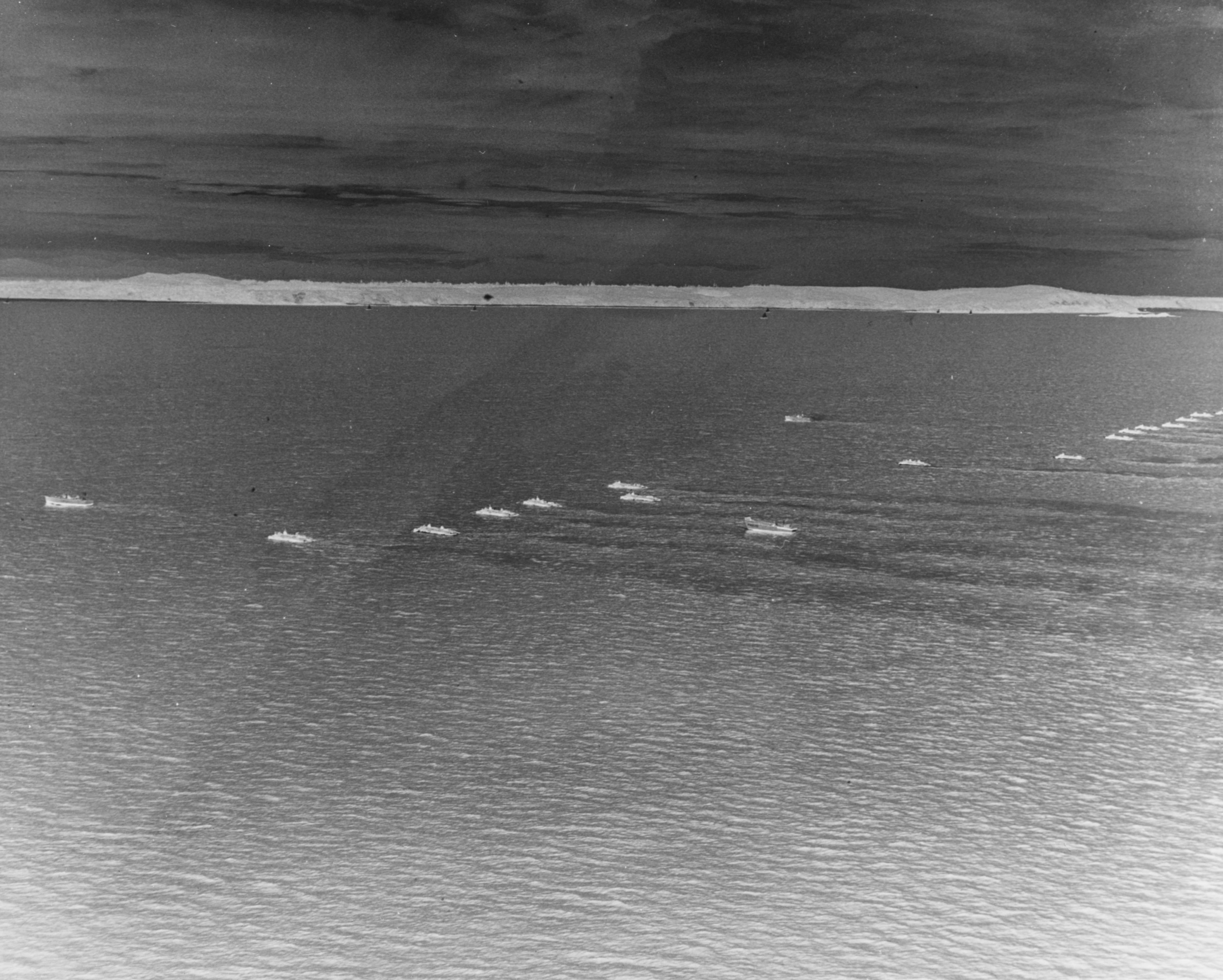 A wave of amphibious landing craft heads for Chu Lai beachhead on 24 June 1965.